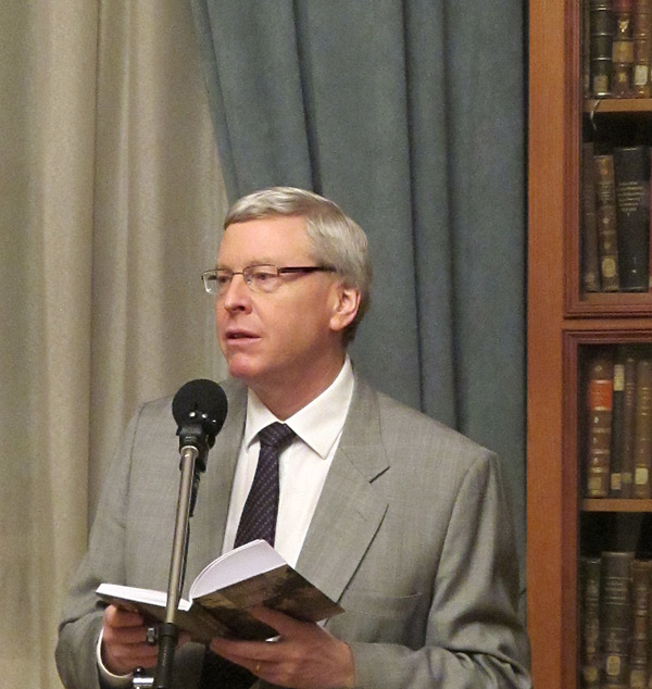 Philip McDonagh is presenting a new collection of his poetry in the Library For Foreign Literature, Moscow